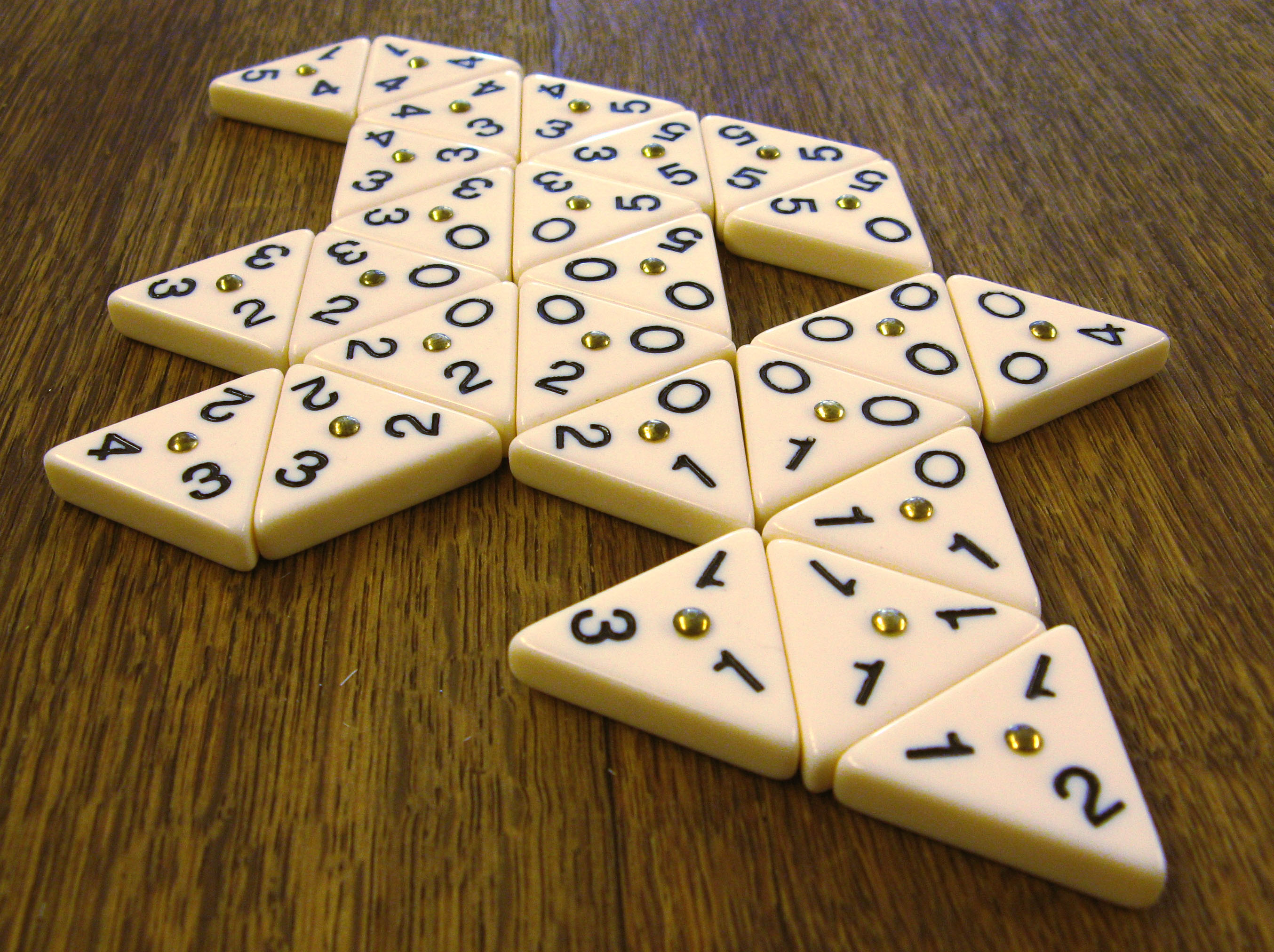 Example of game Triominos